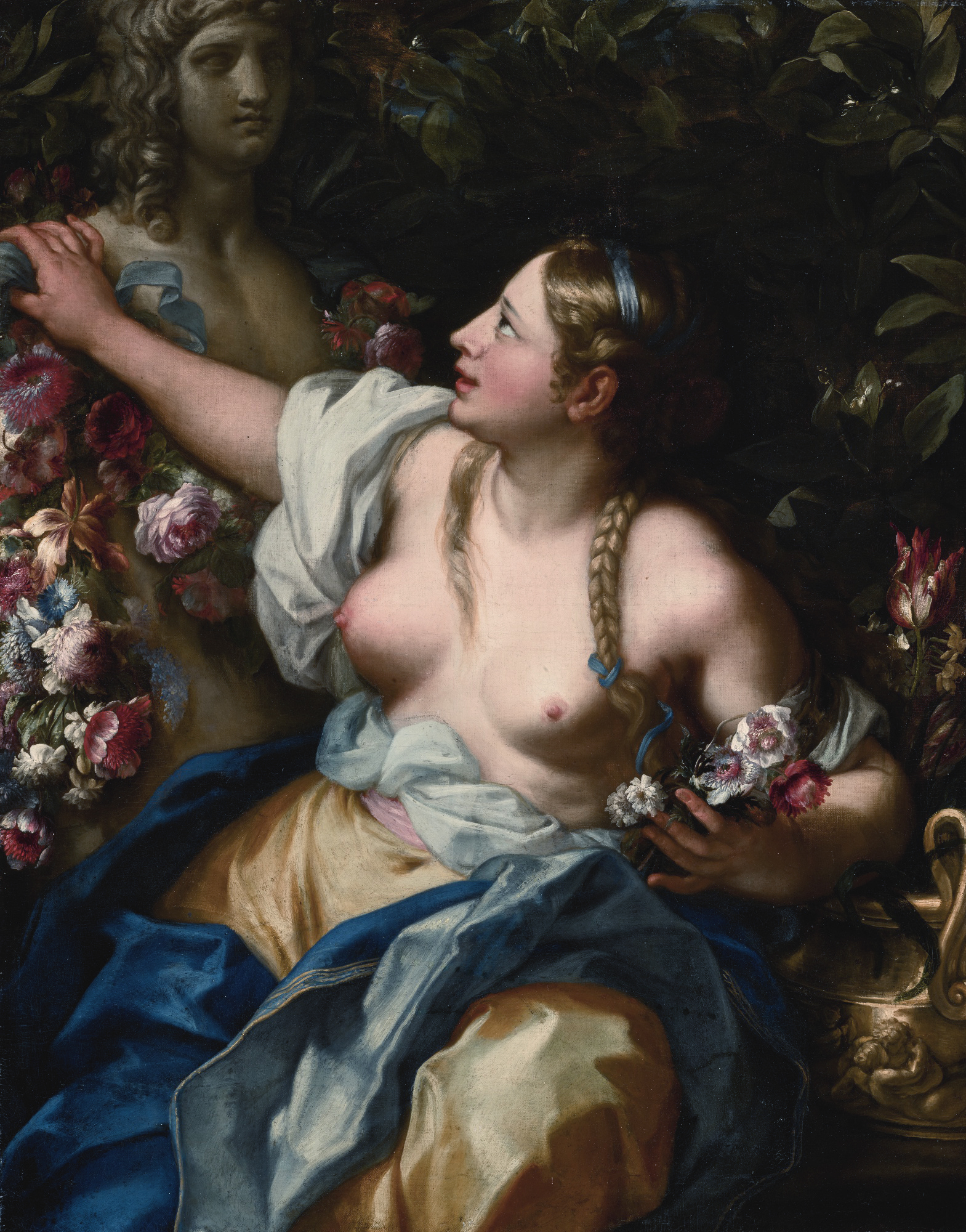 Portrait of a young woman as Flora oil on canvas 128.2 x 100.7 cm.